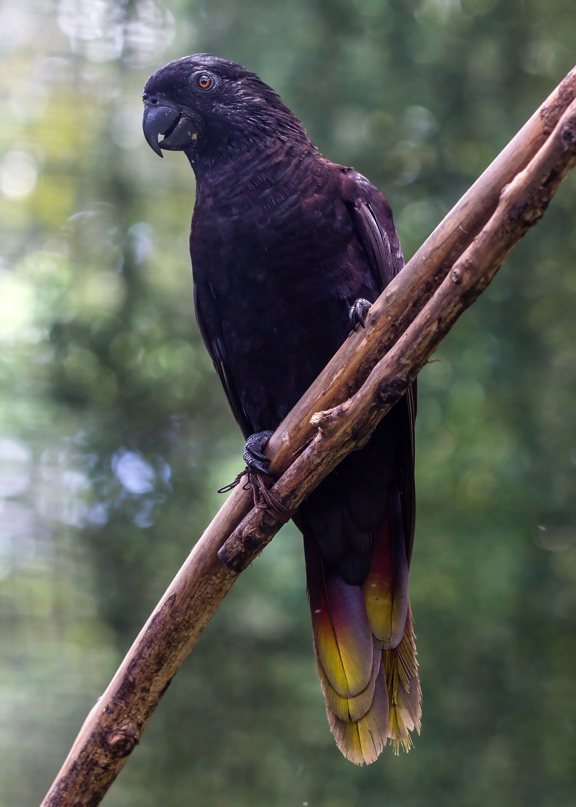 Black lory (Chalcopsitta atra), Gembira Loka Zoo, Yogyakarta 2015-03-15